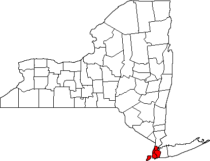 Map of New York Highlighting New York City